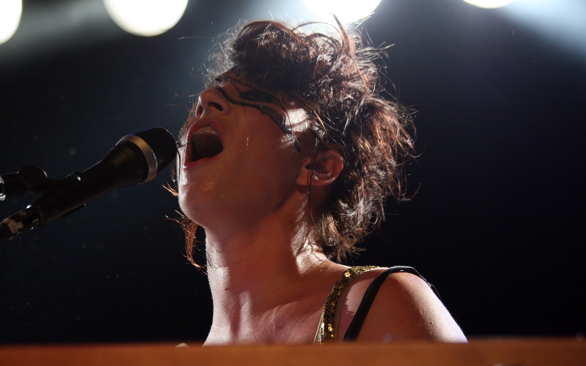 Amanda Palmer - concert at the Arena in Vienna, Austria.